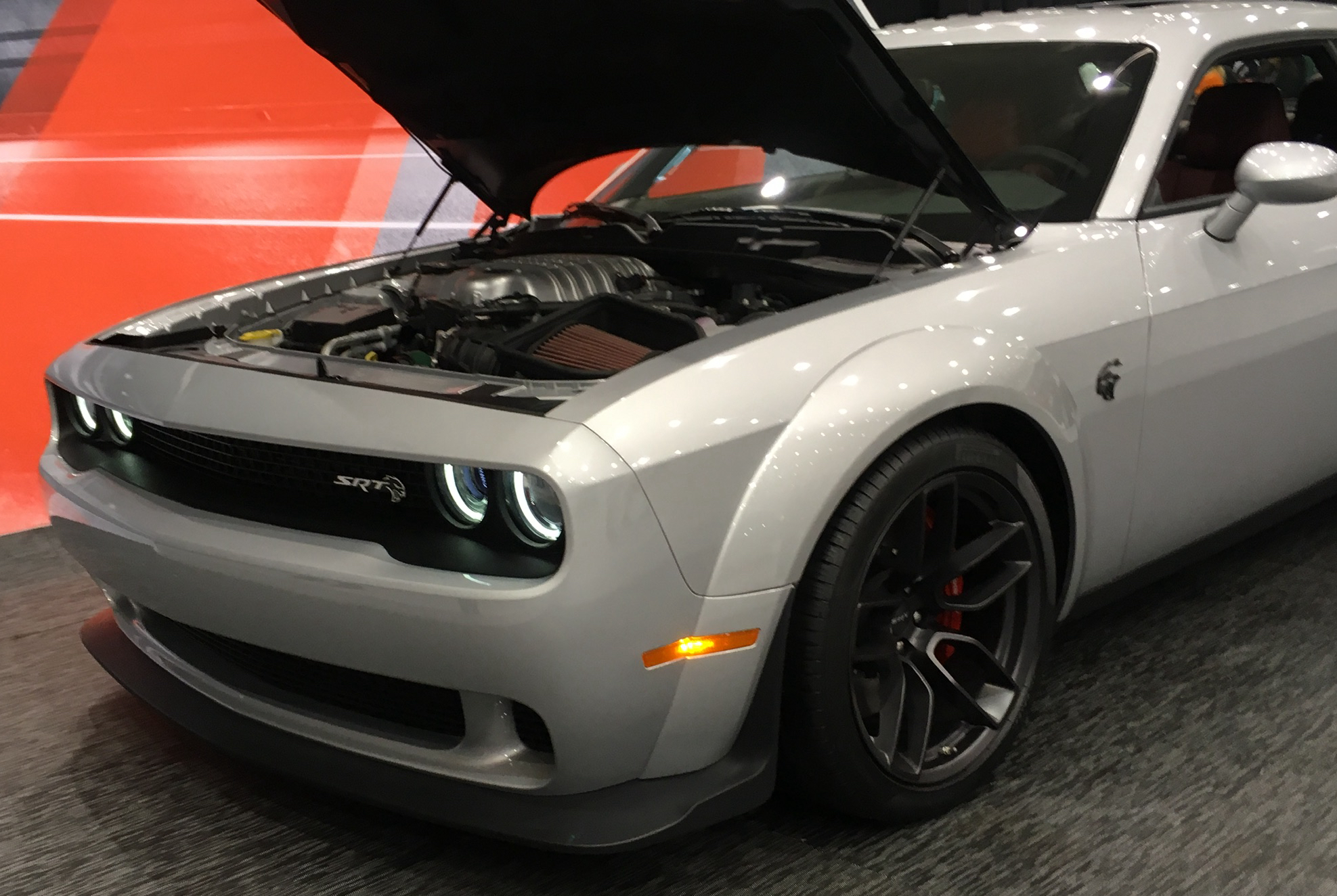 NA-spec Dodge Challenger (LC) Hellcat Redeye photographed at the IX Center